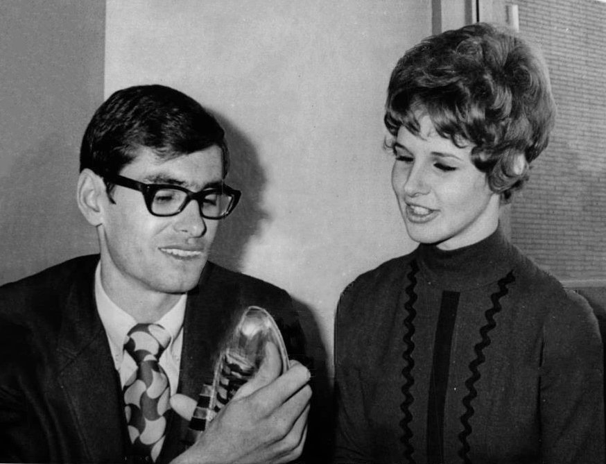 1971 Press Photo Record track runner Jim Ryun, with wife, announces comeback